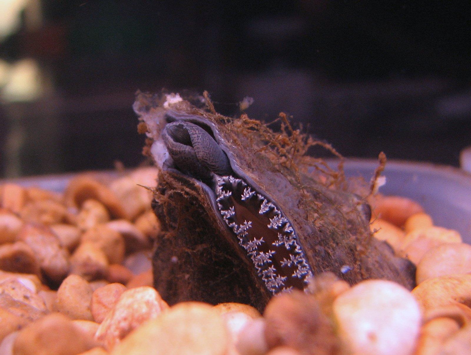 A brooding female winged mapleleaf mussel is displaying her lure for catfish, the host fish for her larvae. Catfish like to eat dead things and the mussel mimics a dead mussel to attract the host fish. The lure resembles rotting flesh and the female is gaping similar to a recently deceased mussel. Credit: Chris Barnhart/Missouri State University